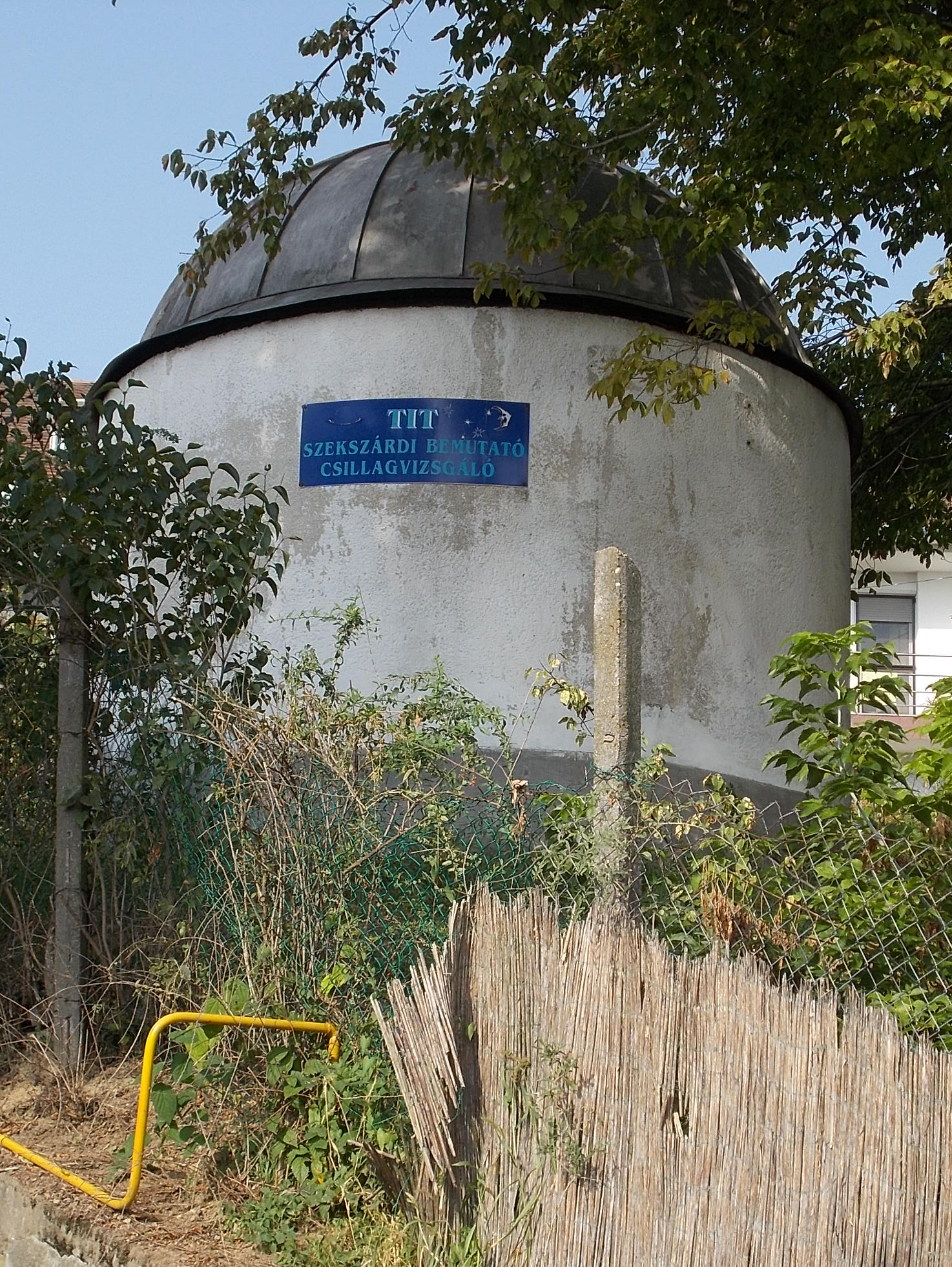 Observatory. - Lehel Street, Szekszárd, Tolna County, Hungary.